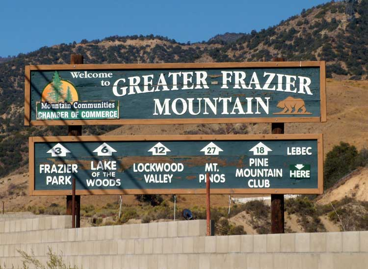 Identification sign posted by the Mountain Communities Chamber of Commerce on Frazier Mountain Park Road.